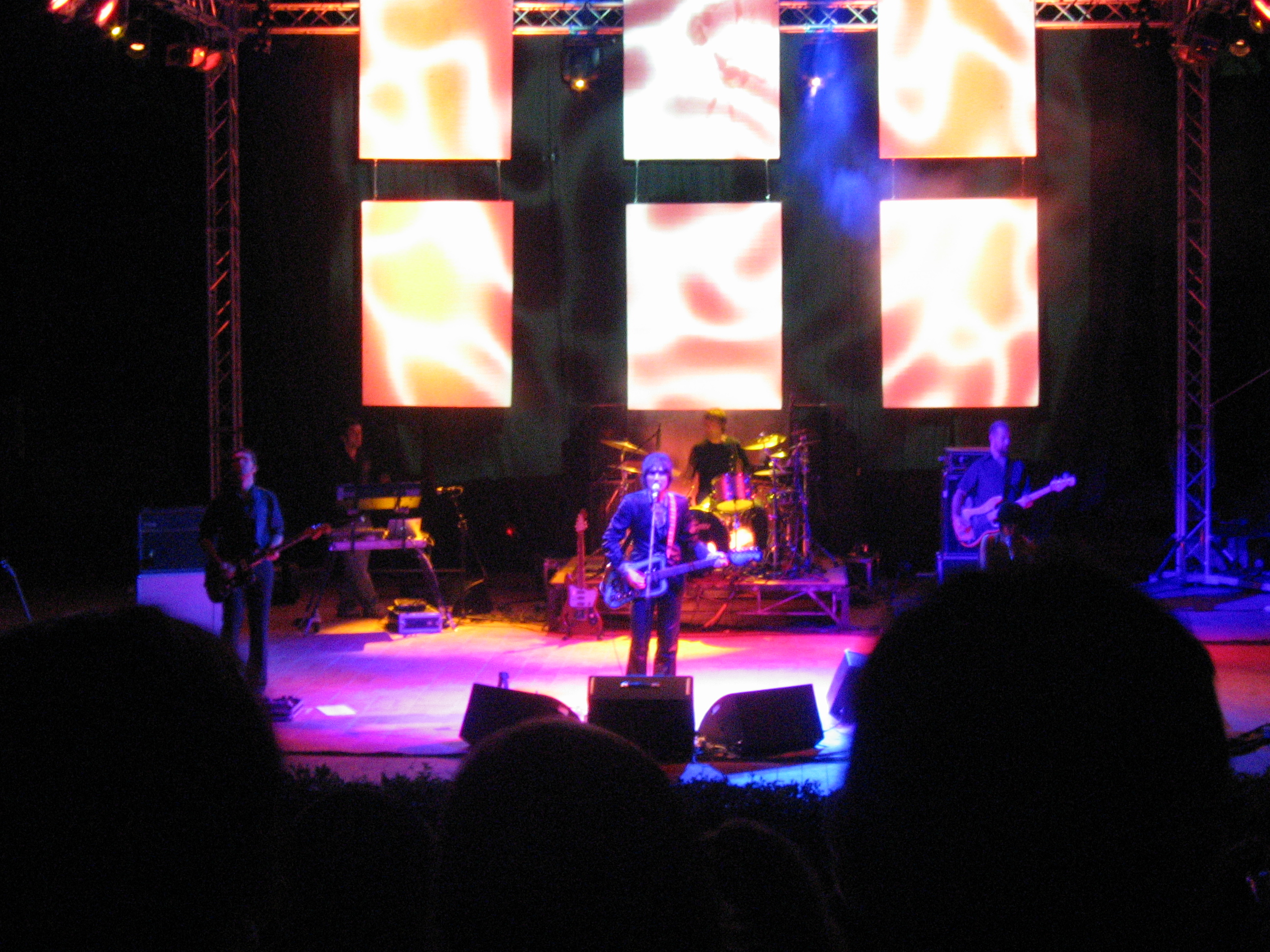 Photo taken with long exposur time and no stand, in the crowd, so slightly moved but enough for a small preview or so BAUSTELLE Performance in Villalago (Terni, Italy), 18 july 2006